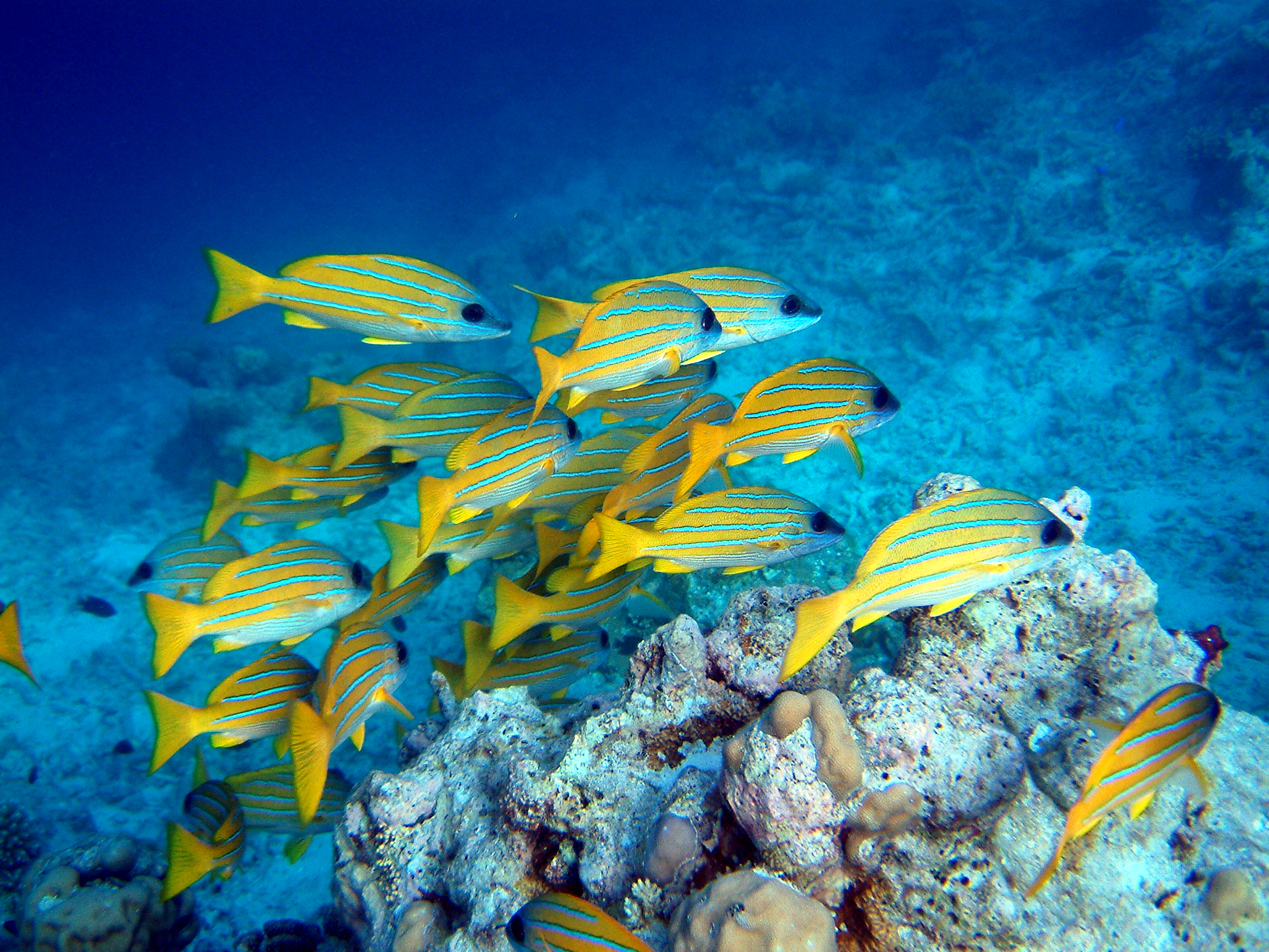 Flickr image of Snapper in the Maldives